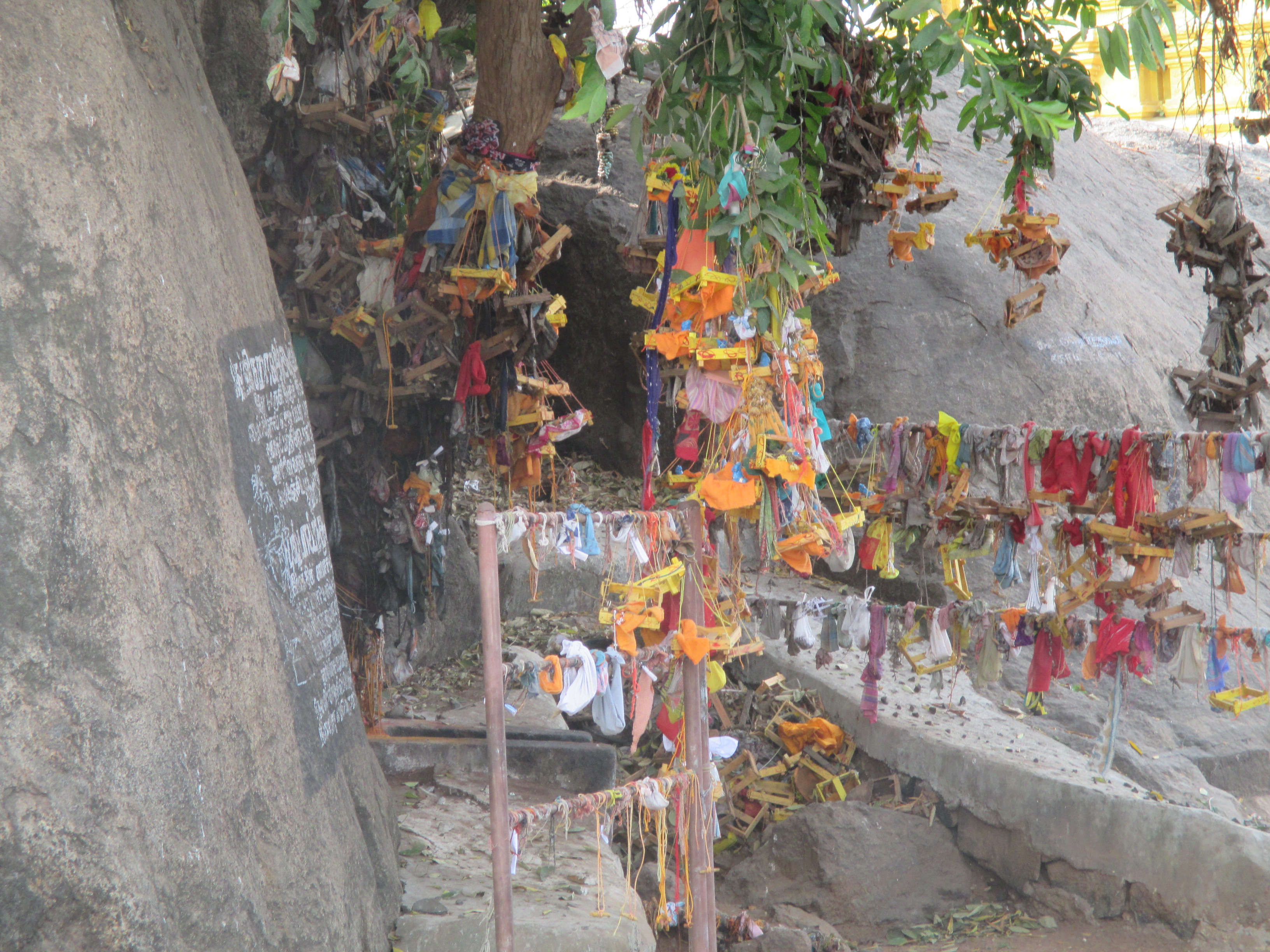 Singaperumalkovil